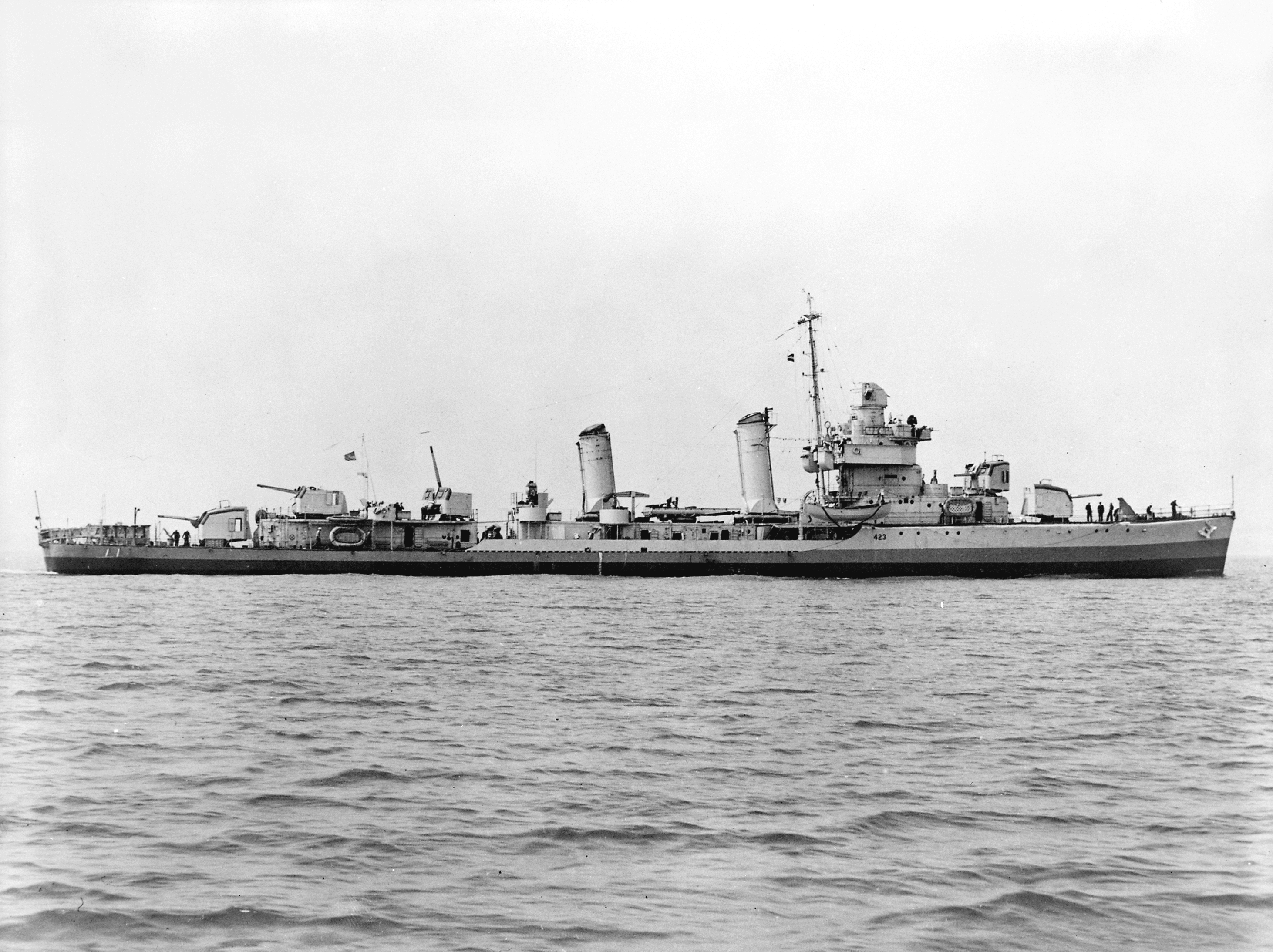 The U.S. Navy destroyer USS Gleaves (DD-423) underway on 18 June 1941. This photo shows a good example of the U.S. Navy Camouflage Measure 2 graded system. Note the unusual placement of the hull number below the bridge. The Benson-/Gleaves-class destroyers were notoriously topheavy. Therefore, the shields of gun mounts 3 and 4 were open and covered by canvas to reduce weight. Gleaves is also already missing the searchlight platform aft. Later, the No. 3 gun was removed and the No. 4 received a standard turret.